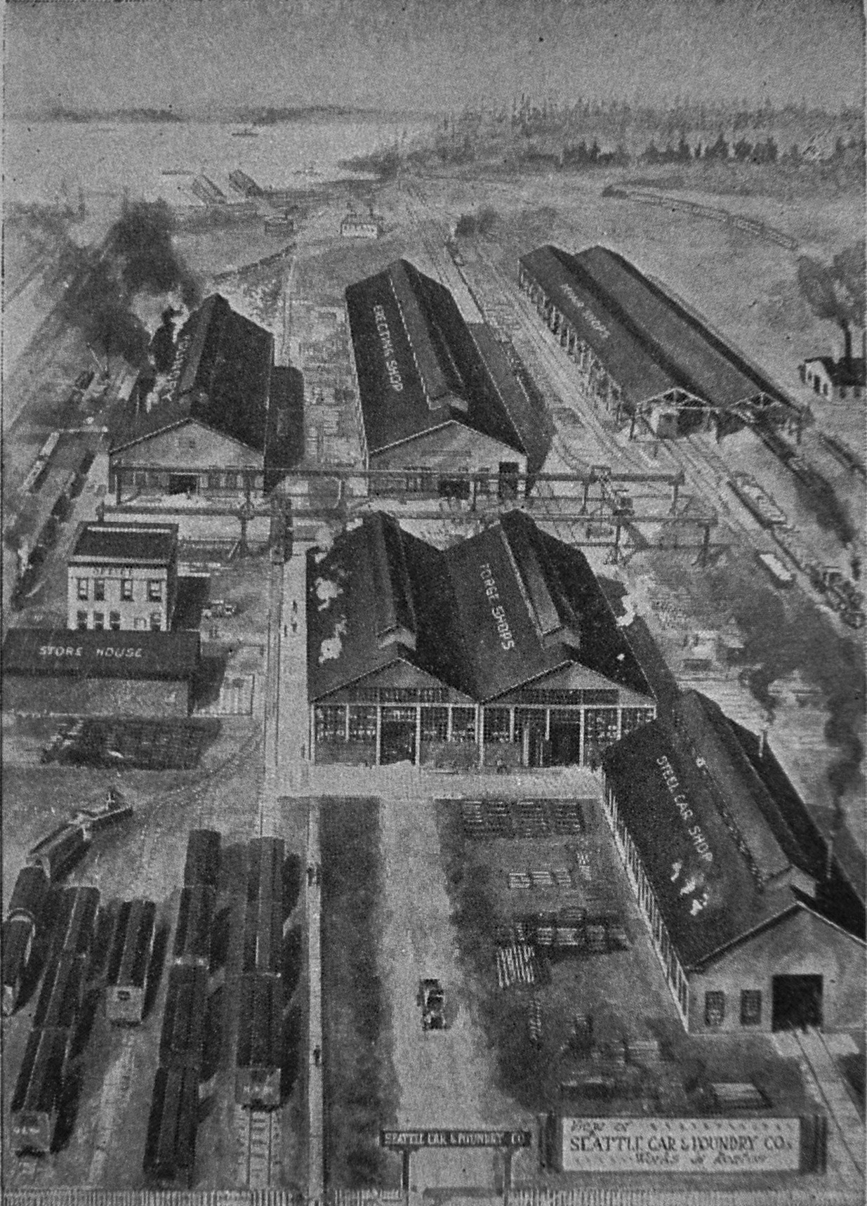 Seattle Car and Foundry (now PACCAR) works, Renton, Washington, 1916. See David Wilma, Pacific Car and Foundry Co. becomes PACCAR Inc on January 25, 1972, HistoryLink, April 11, 2001 for more about the company.